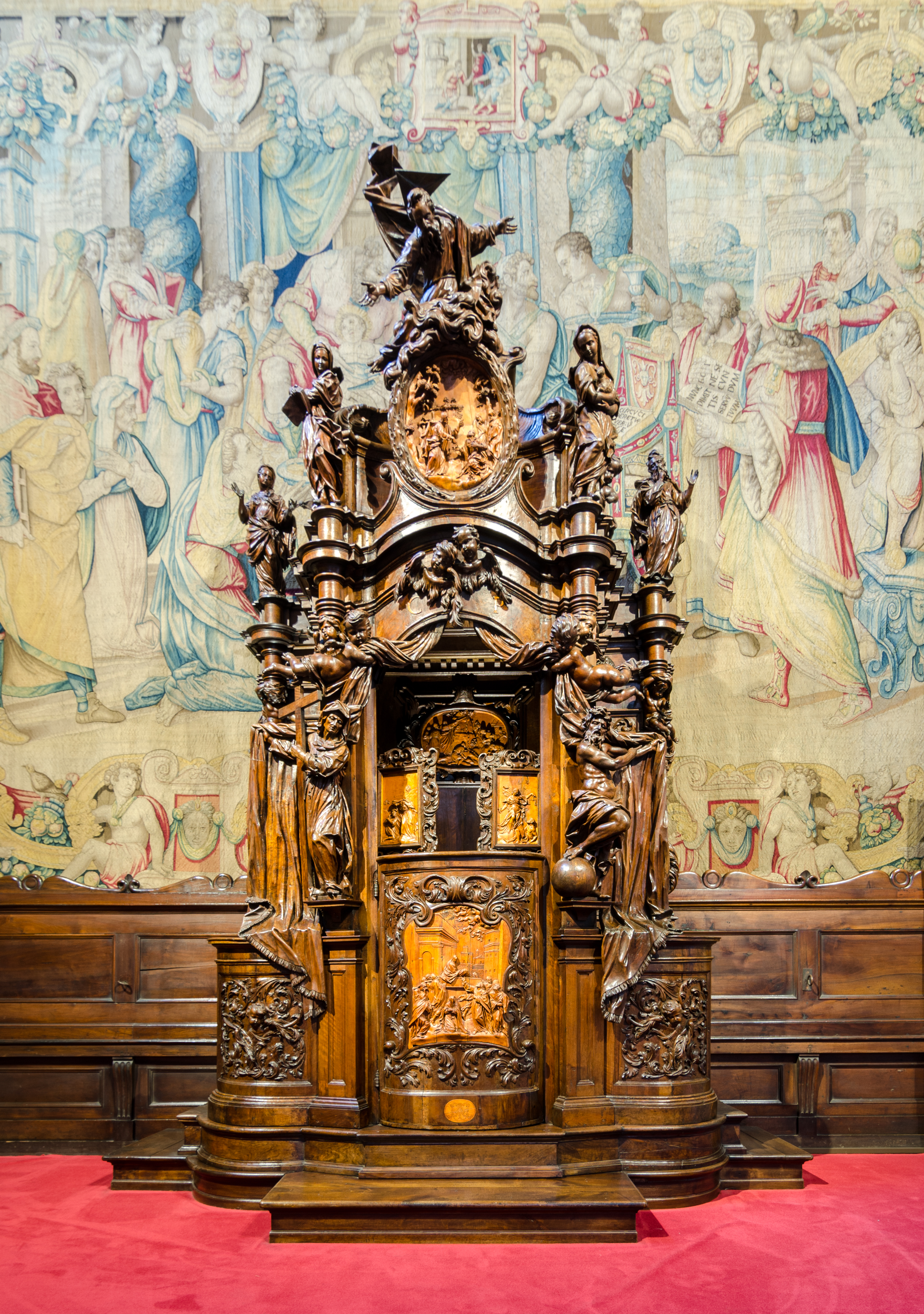 Bergamo (Lombardy, Italy) – upper city – Basilica of Santa Maria Maggiore – interior – confessional by Andrea Fantoni in 1704